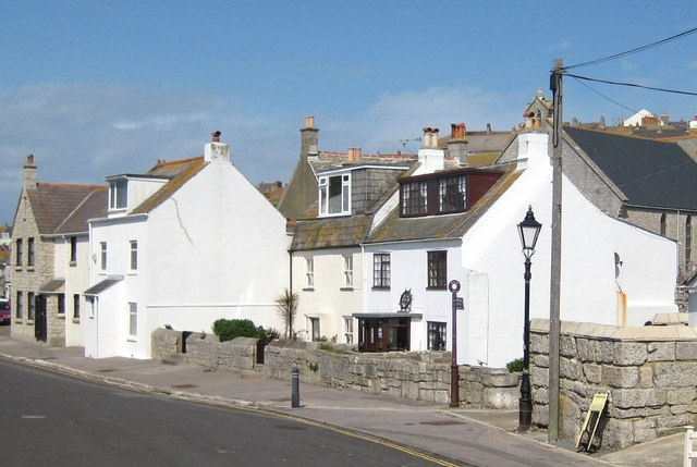 Chiswell Cottages Tucked down behind the sea wall and Chesil Beach in Brandy Row, these cottages have large gable windows to enjoy the view.